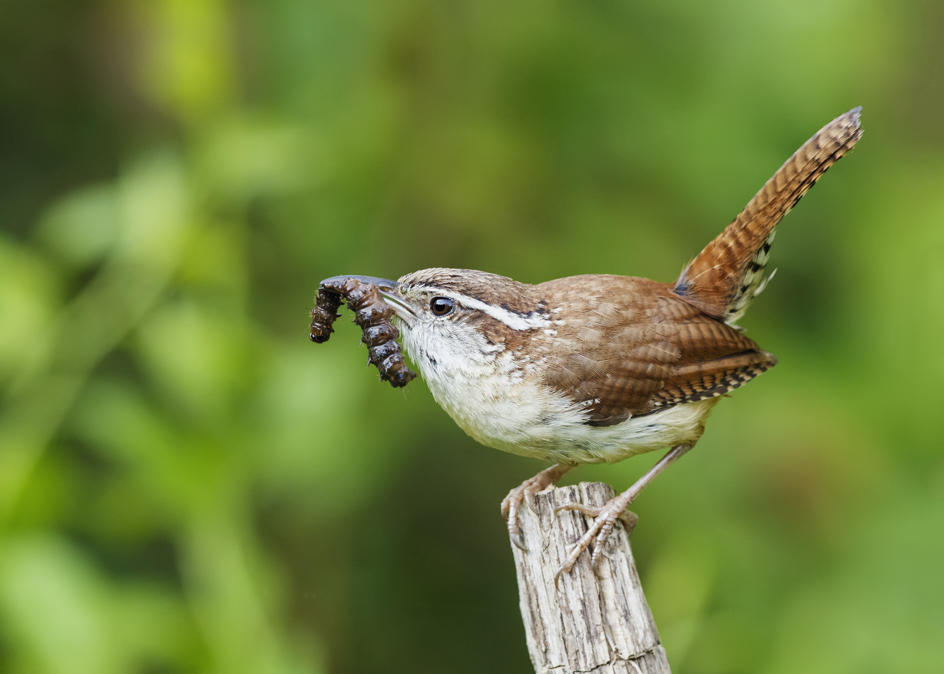 NPS | N. Lewis A pair of Carolina wrens built a nest above my office door. During the day I'd see the male posing with a "fresh catch." He'd perch, look around for other birds (unknowingly providing me with a trophy moment), before returning to the nest to feed his young.